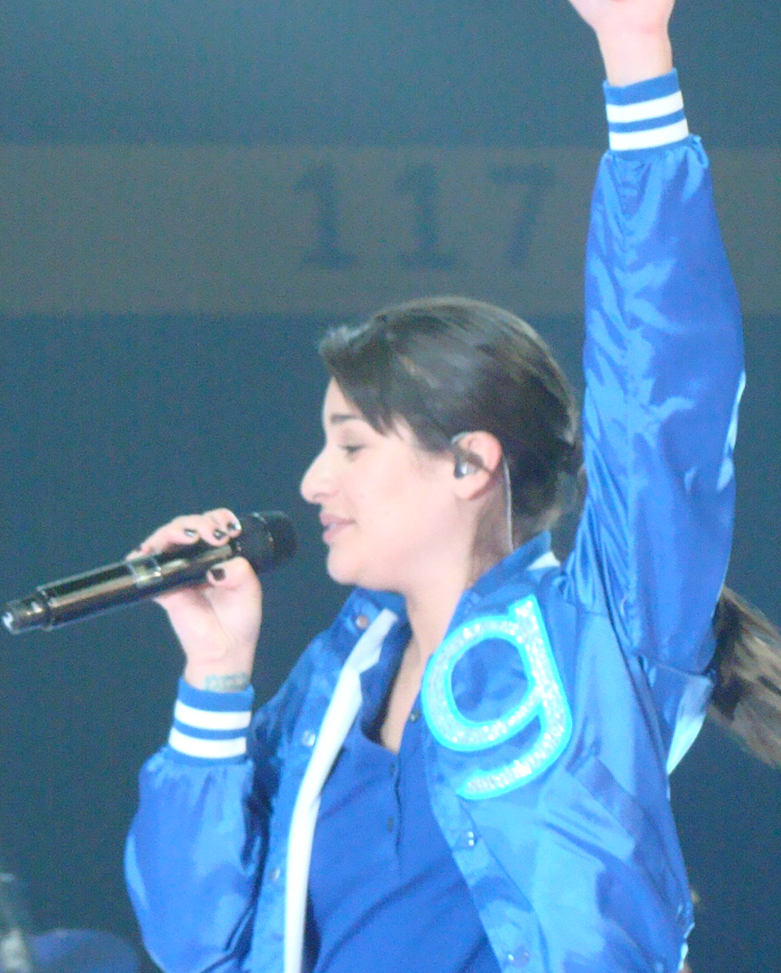 Lea Michele as Rachel Berry, performing Somebody to Love on the Glee Live! In Concert! tour.